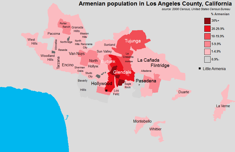 Percentage of people self-identified as Armenian by ZIP code in the Los Angeles County, California, based on 2000 Census data